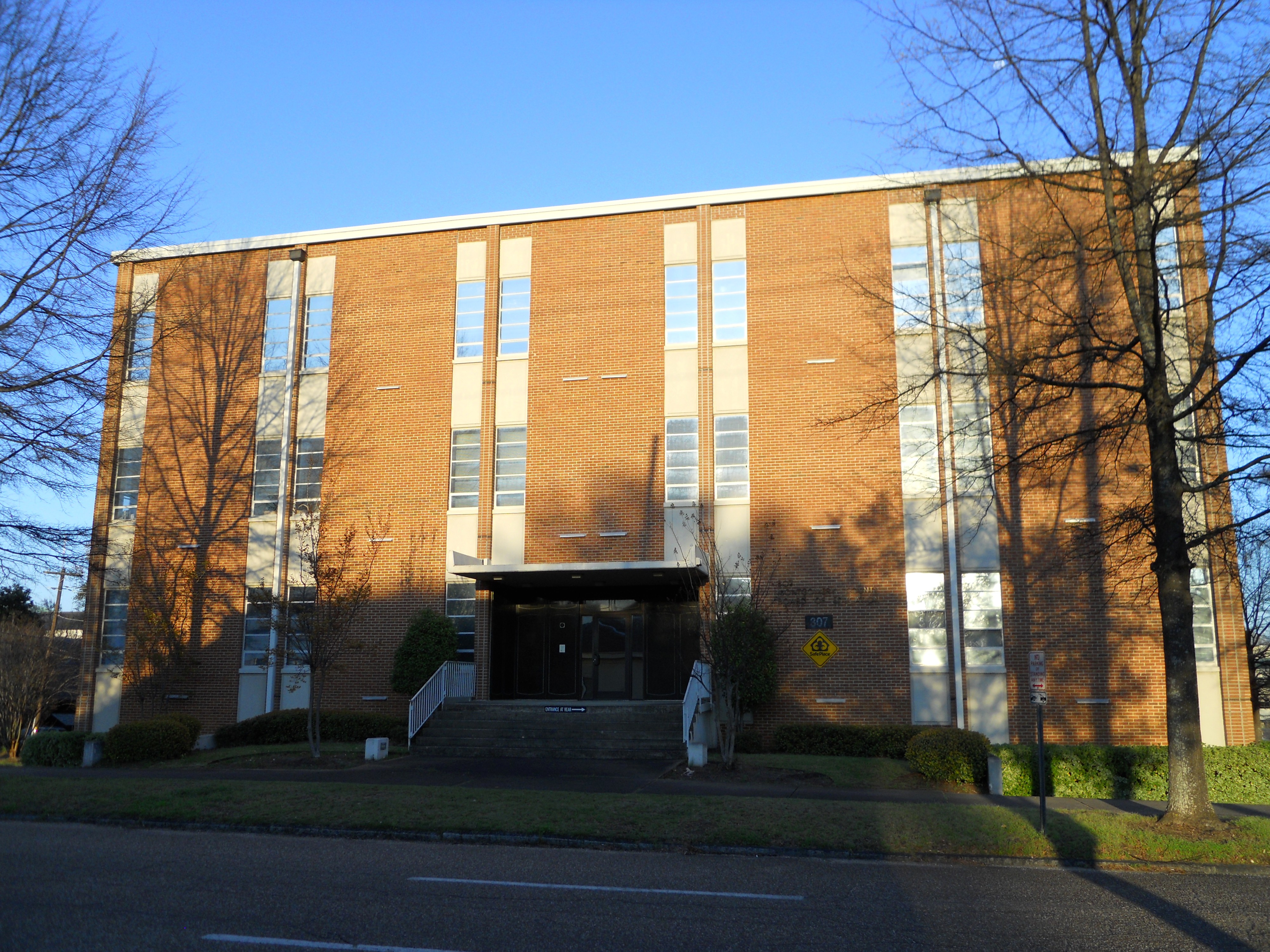 This is a photograph of the Montgomery Public Schools headquarters and Montgomery County Board of Education, located at 307 S. Decatur Street in Montgomery, Alabama.